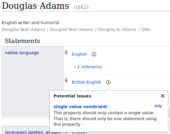 A constraint violation on the Wikidata item for Douglas Adams (Q42). The item has two “native language” statements, “English” and “British English”; the constraint violation message points out that it should only have one (single value constraint).